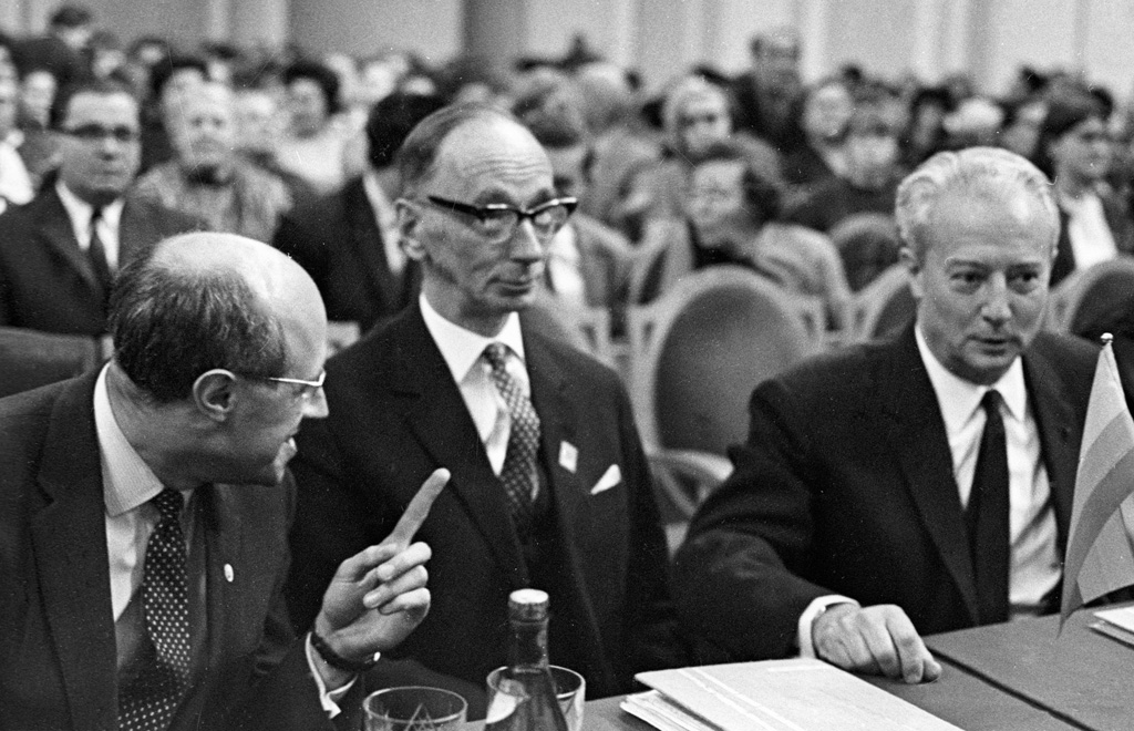 “Cellists Rostropovich, Wilkomirski and Fournier in the jury of the 3rd International Tchaikovsky Competition”. The jury of the 3rd International Tchaikovsky Competition (left to right): cellists Mstislav Rostropovich (USSR), Kazimir Wilkomirski (Poland) and Pierre Fournier (France) listening to the performances.